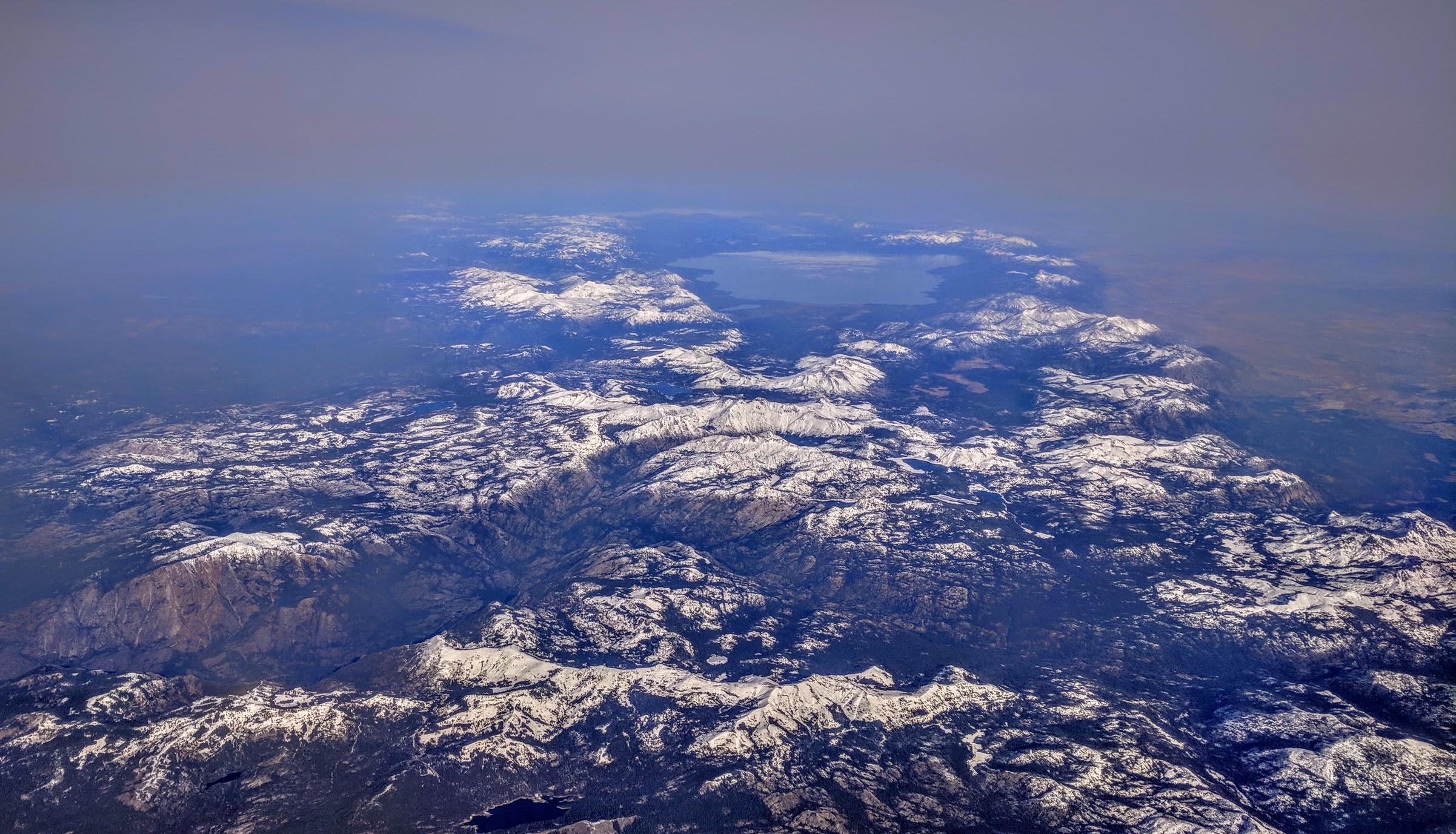 The Sierra Nevada mountains in the region of the Bear Valley, Kirkwood, and Lake Tahoe ski areas, November 19, 2017, when some of the ski areas have just opened for the season.